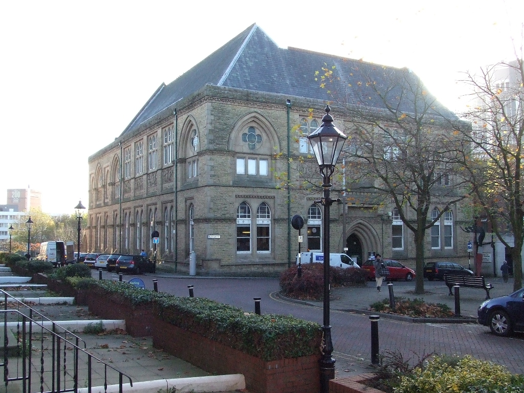 Blackburn Museum and Art Gallery